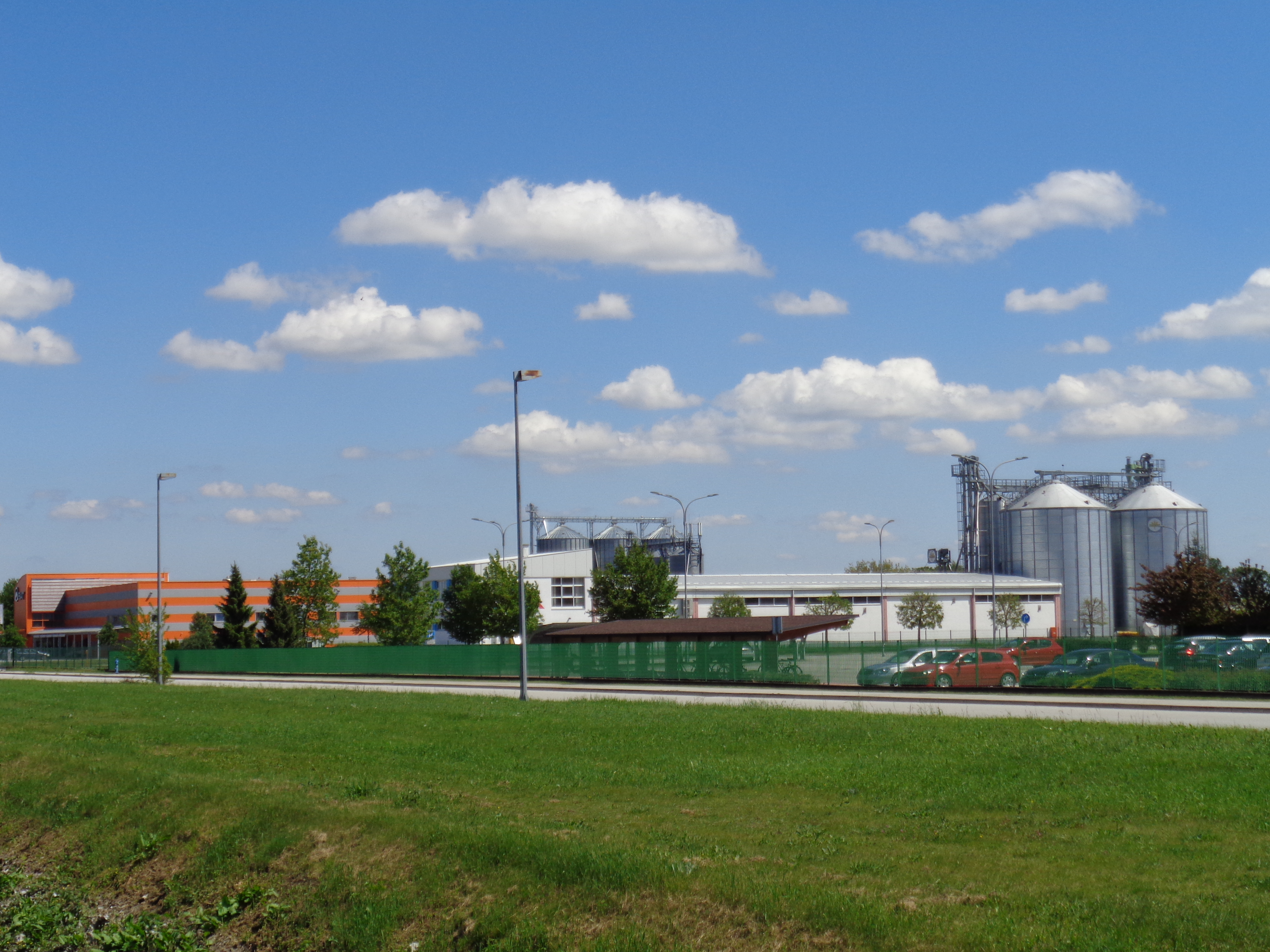 Čakovec-East Industrial Zone, Čakovec, Medjimurie County, northern Croatia